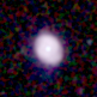 Planetary nebula Cat's Eye (NGC 6543)